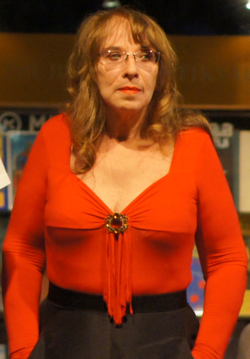 Svetlana Makarovič in Ljubljana.